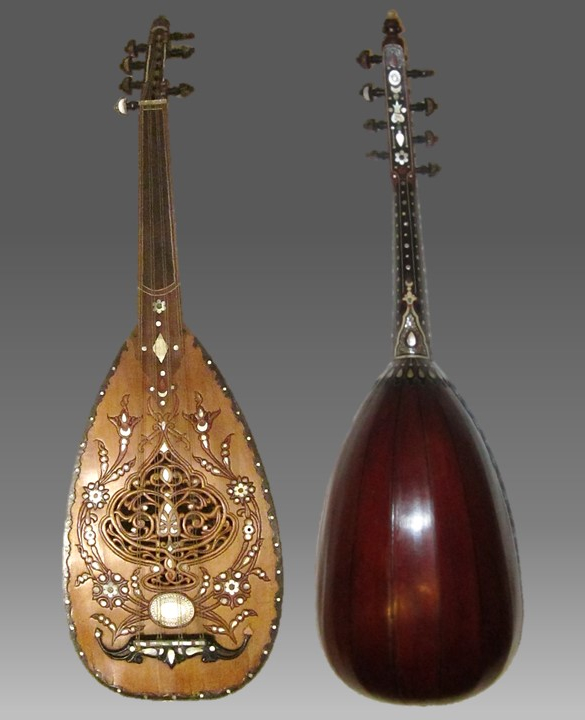 Kwitra in the Met Museum, USA. Public Domain.